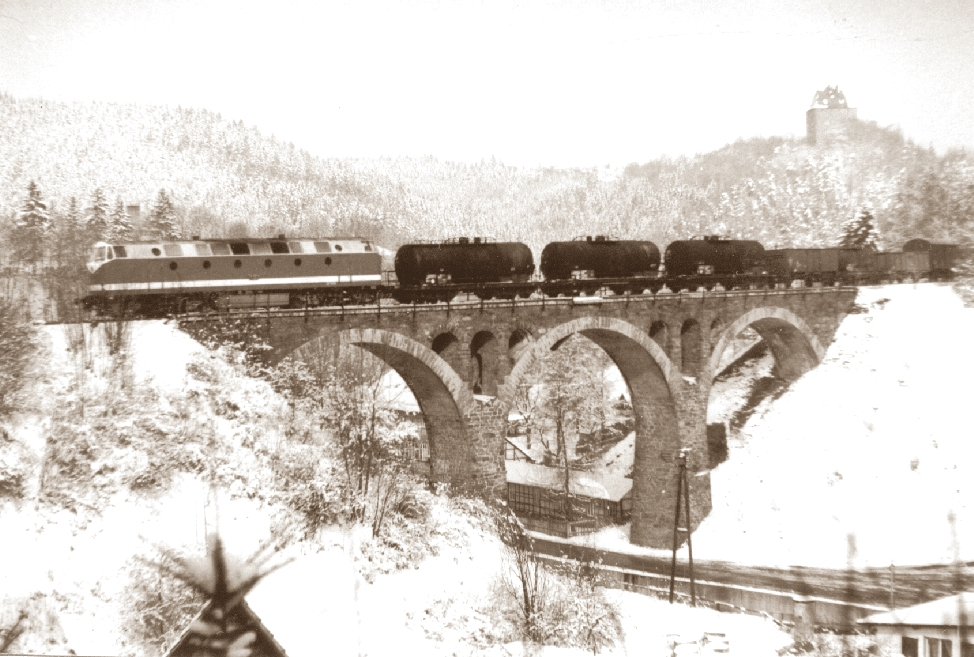 published in the 1st volume of the book "Eisenbahn Triptis - Marxgrün / Eine Nebenbahn im Strudel der Geschichte" (Ziegenrück, 2016)